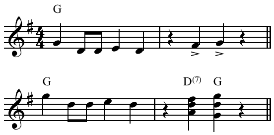 "Shave and a Haircut" in G.